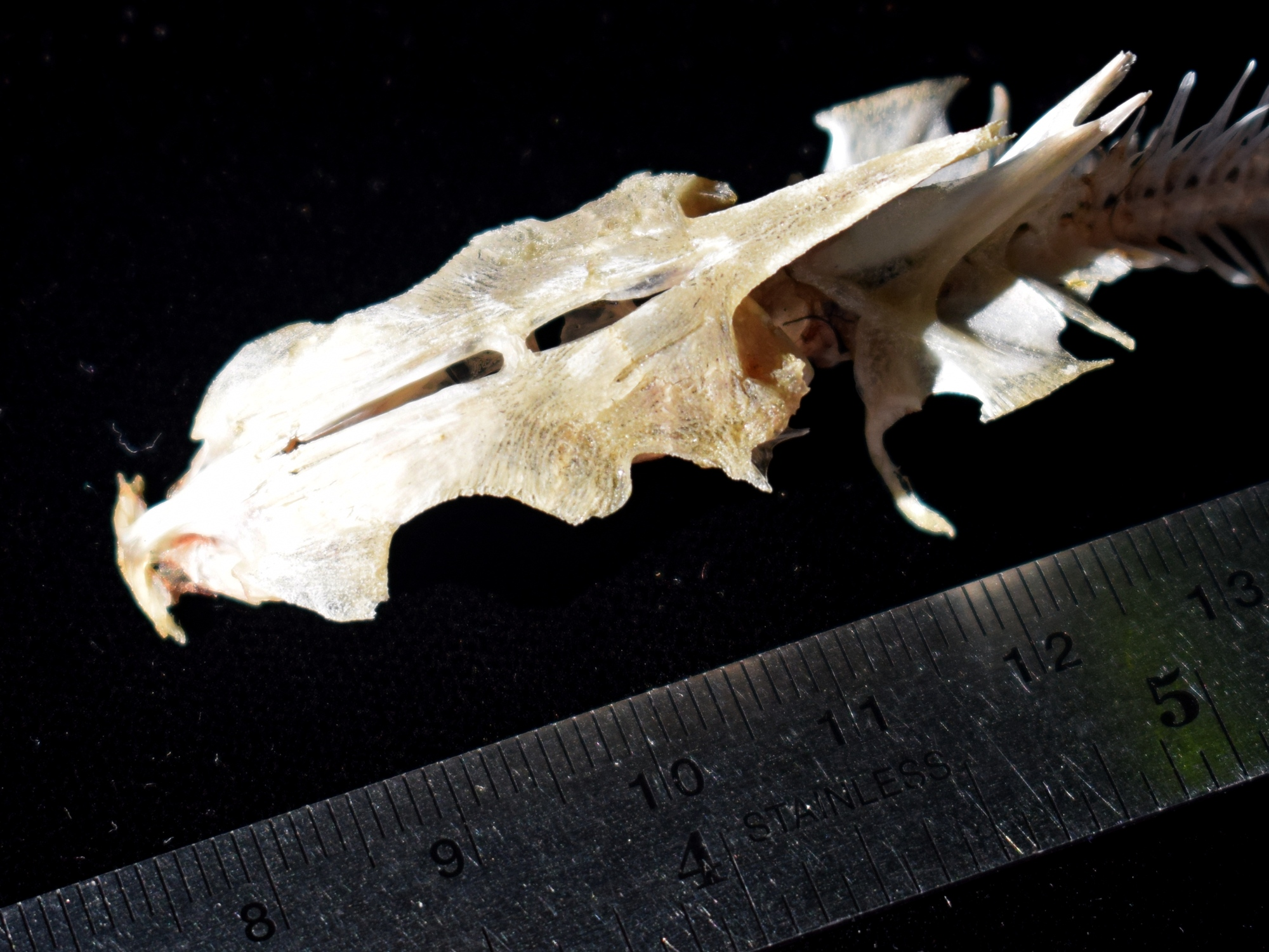 Mystus singaringan, female, 175mm SL; from Cihideung, a tributary of Cisadane River, Bogor, West Java, Indonesia. Occipital region of head skeleton; to show the second cranial fontanel that extends to the base of occipital process.